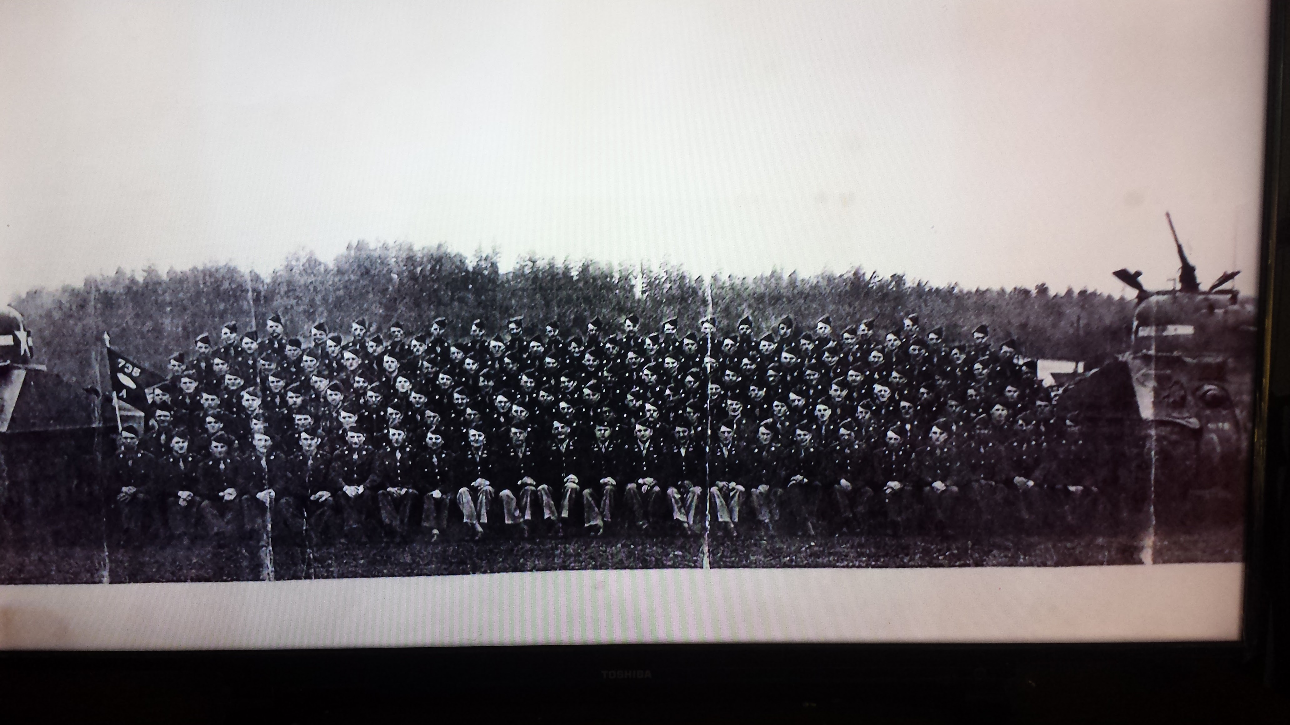 735th Tank Battalion Co. A . WWII